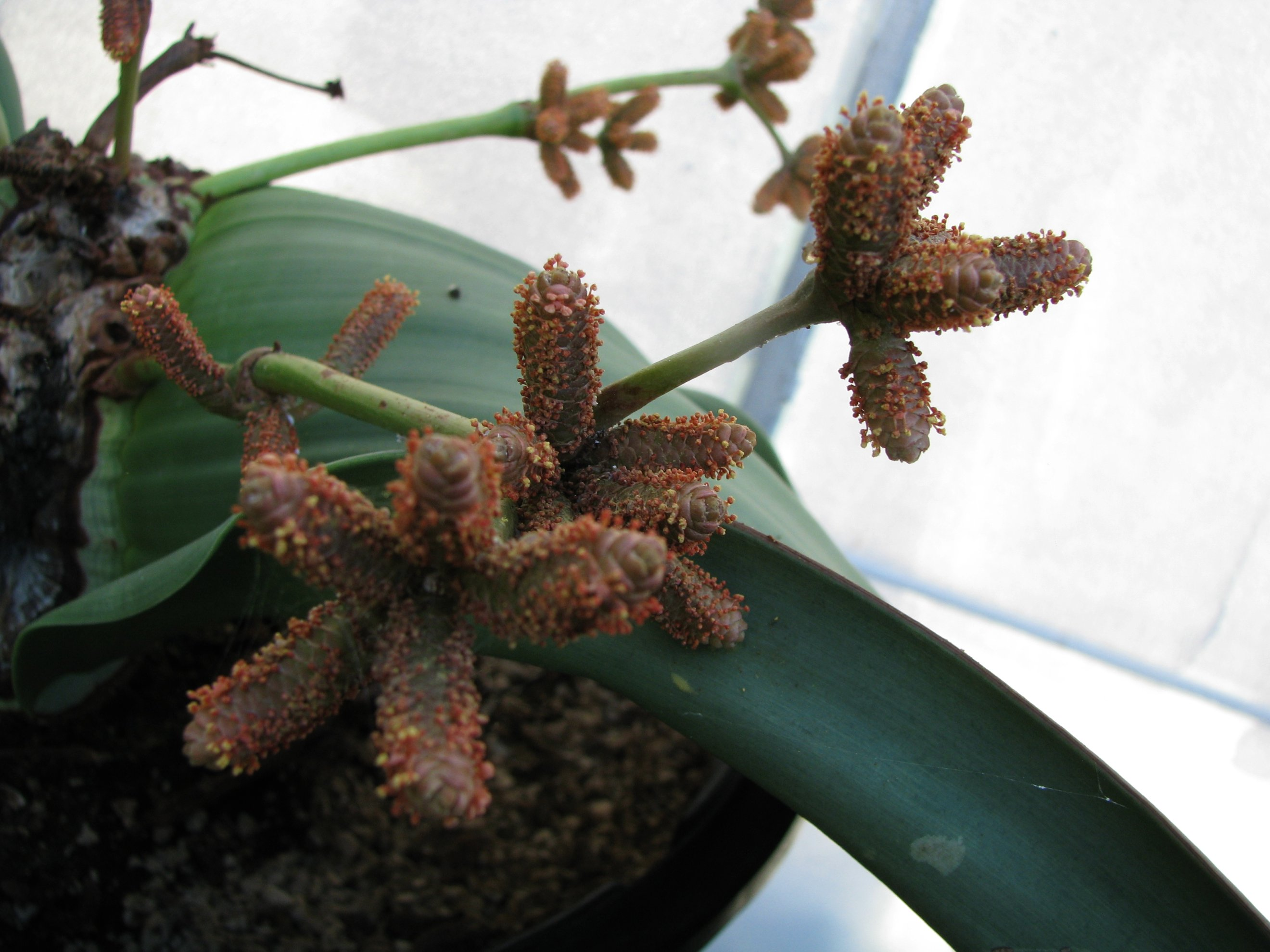 Welwitschia Welwitschiaceae Washington State University greenhouse, Seattle, Washington Male cones